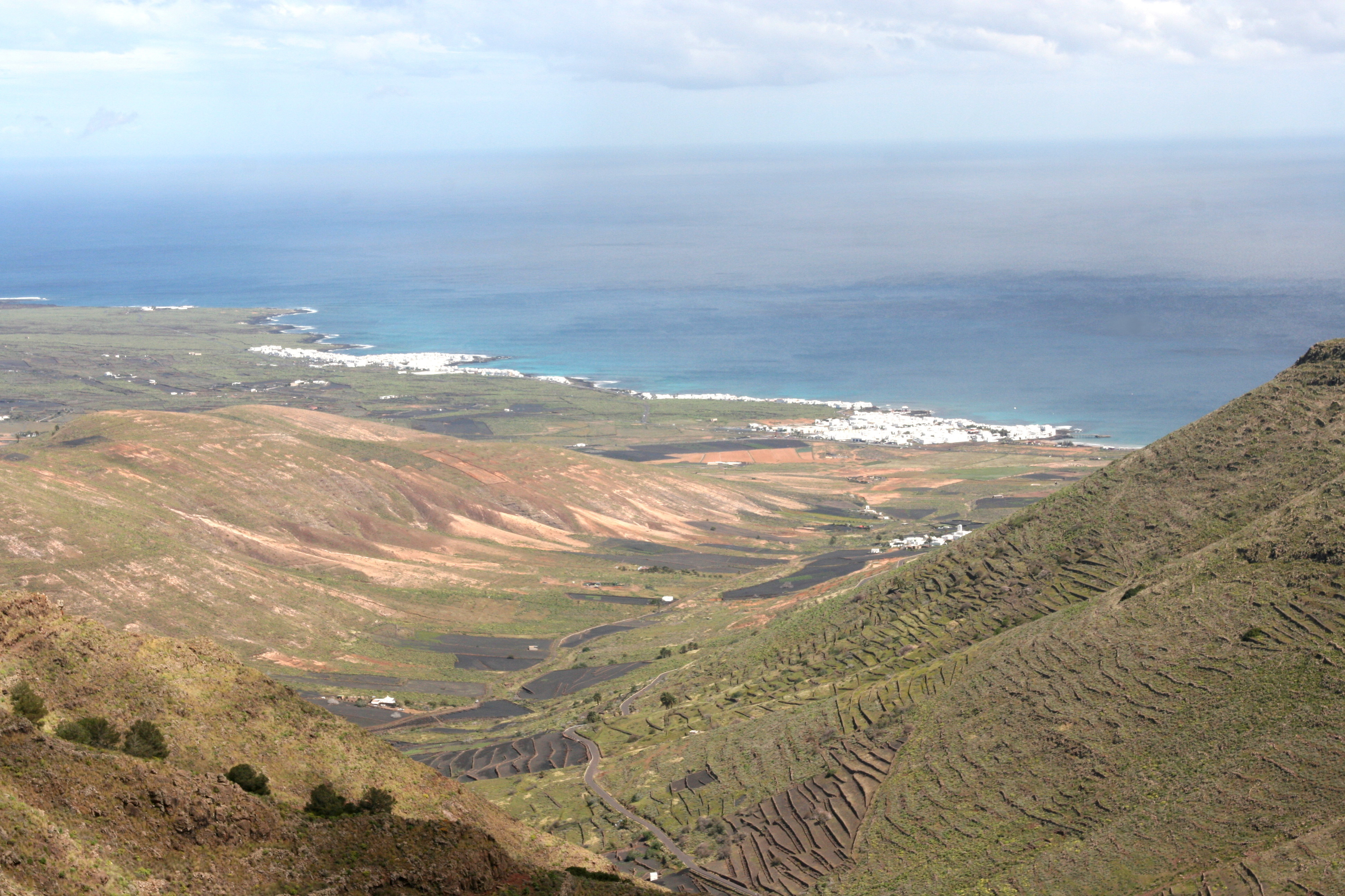 View from Calle Ramon Y Cajal (LZ-10) down to Arrieta and Punta Mujeres, Haría, Lanzarote, Canary Islands